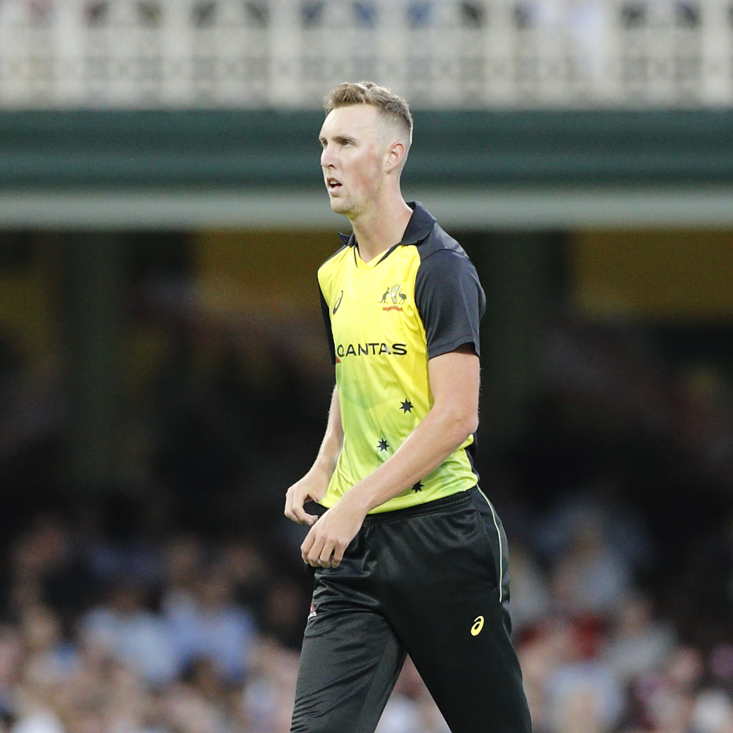 Billy Stanlake, Australia vs New Zealand T20